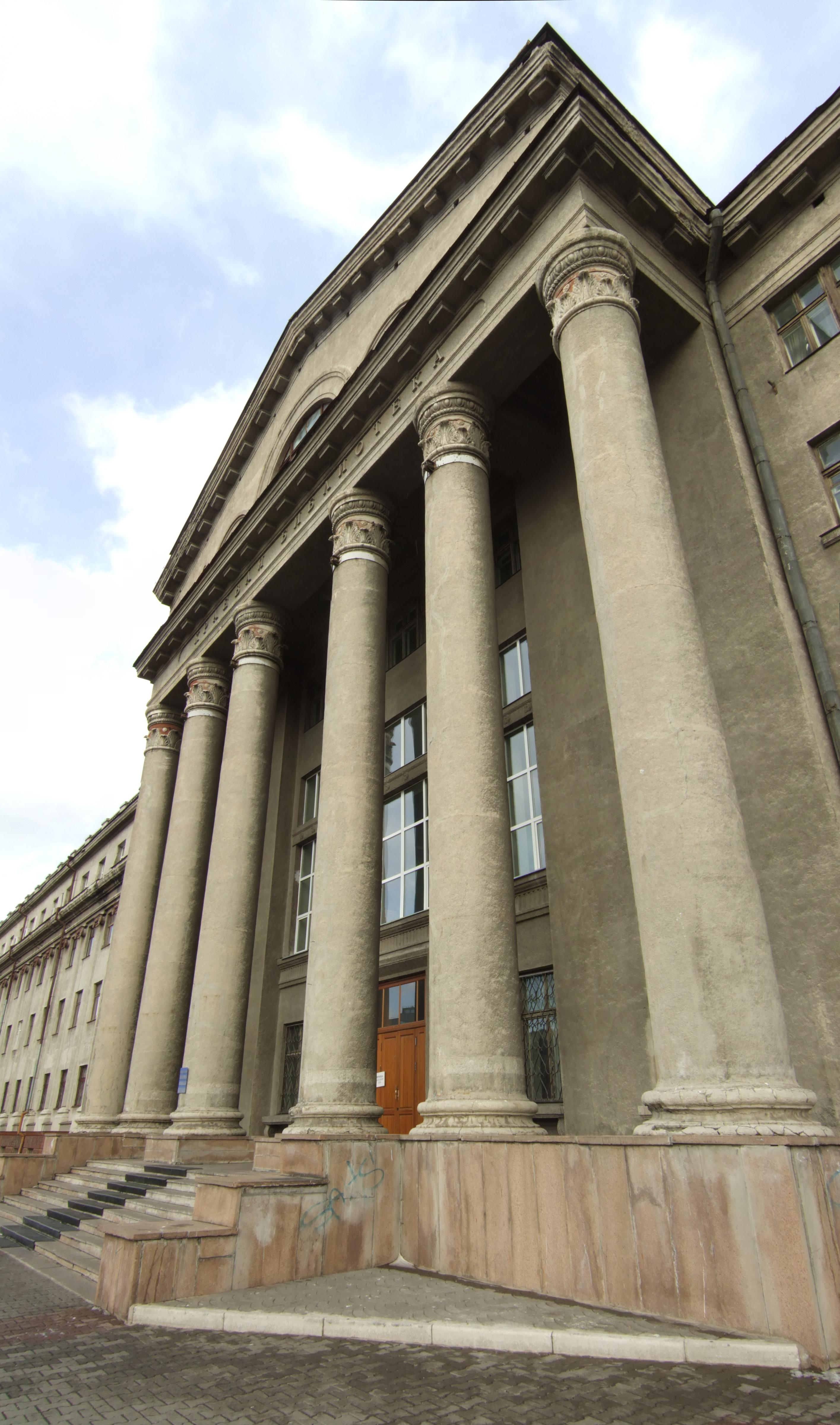 The Krasnoyarsk Krai Central Library. Built in the XX century. Taken by Andrey "Efenstor" Pivovarov on March 17, 2006.